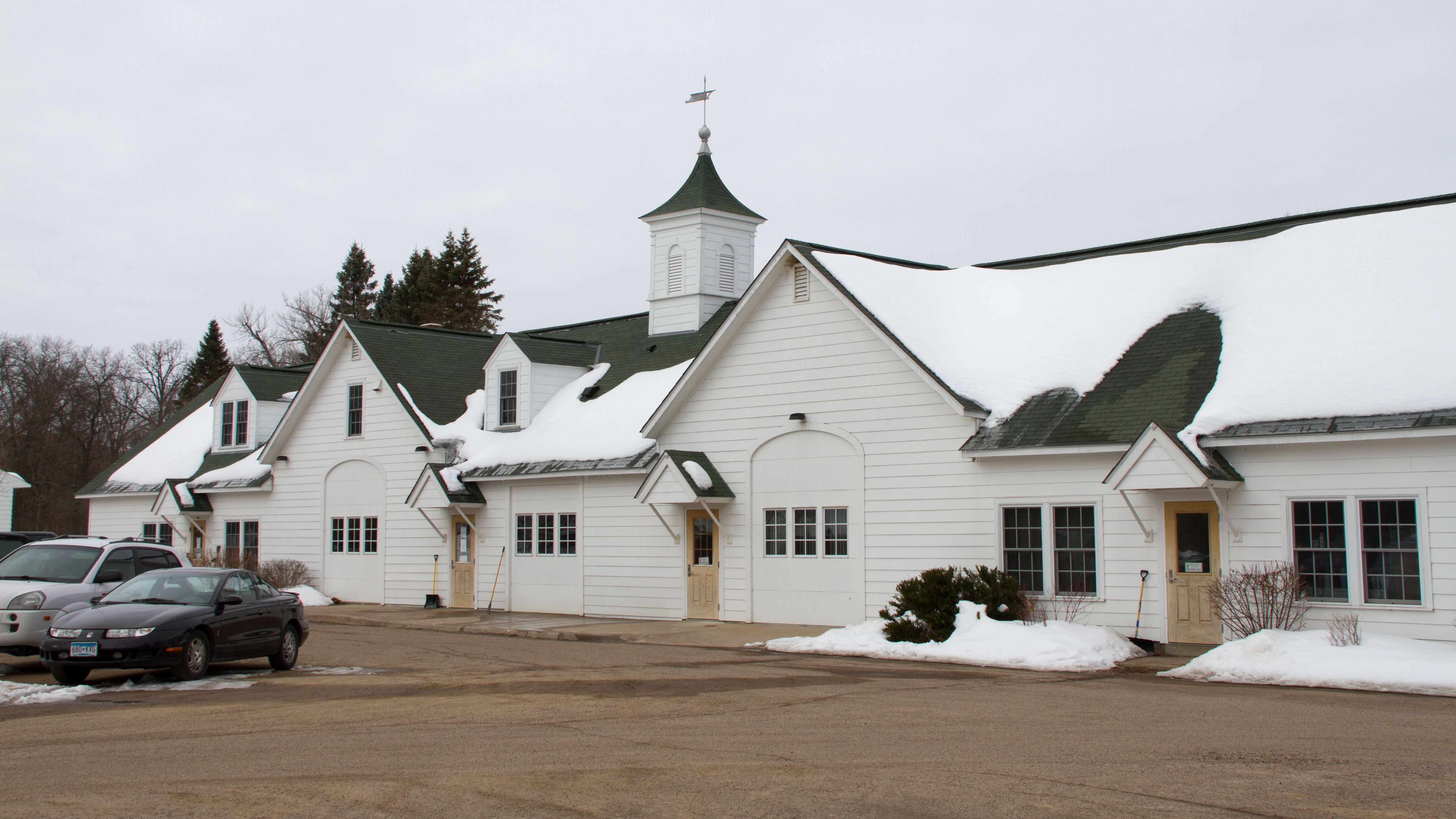 Carlos Avery Game Farm, Columbus, Minnesota, USA.